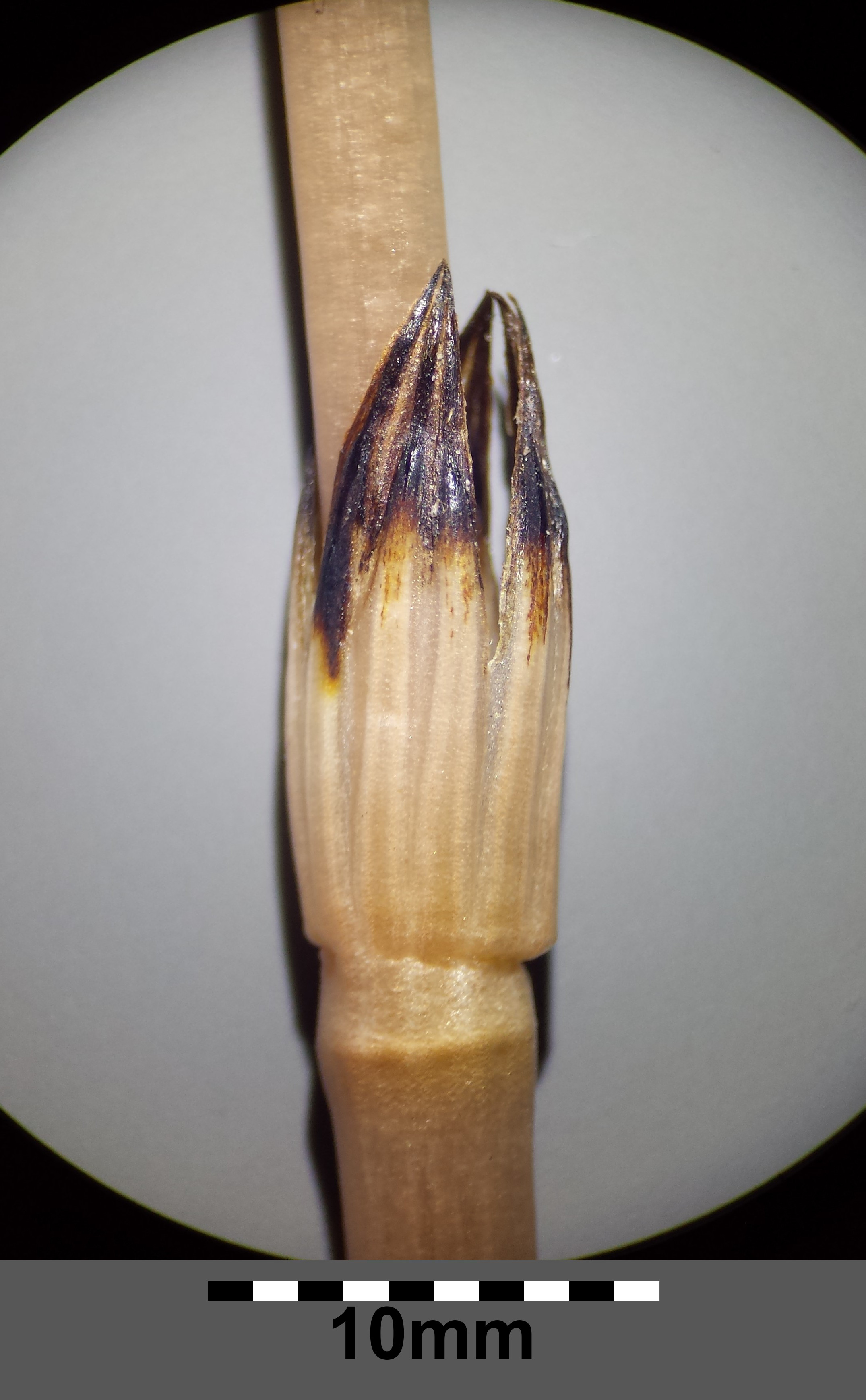 Stem with sheath (fertile stem) Taxonym: Equisetum arvense subsp. arvense ss Fischer et al. EfÖLS 2008 ISBN 978-3-85474-187-9 Location: Jedlersdorf rail station, Vienna-Floridsdorf - ca. 160 m a.s.l. Habitat: ballast